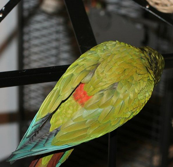 Back of a Blue-winged Macaw.